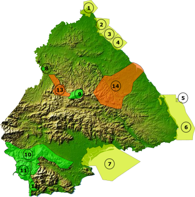 National parks and protected areas in the province of Los Santos (Panama): 1. Forest Reserve and Marina Santa Ana de Los Santos 2. Protected Area Coastal Zone of the district of El Espinal 3. Wildlife Refuge Rock of La Honda 4. Protected Area Coastal Zone of the village of La Enea 5. Wildlife Refuge Isla Iguana 6. Wildlife Refuge Pablo Arturo Barrios 7. Wildlife Refuge Cañas Island 8. Community Park The Colmon 9. Forest Reserve, Animal and River Cerro Canajagua 10. Forest Reserve The Tronosa 11. Cerro Hoya National Park 12. Forest Reserve Tonosí 13. Cocoa micro river 14. River Basin Mensabé